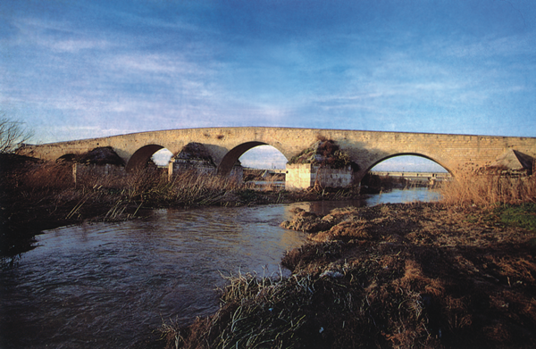 Roman bridge over the river Ofanto, near Canosa di Puglia (Italy)